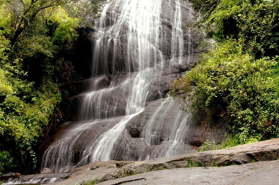 This picture was taken of Bear Shola falls in July 2008, early in the morning when there are hardly any tourists. The falls gets its name from the mountain bears which used to come to drink water in this area. Today, the tourist crowd has kept them away, and bears have not been sighted since many decades.